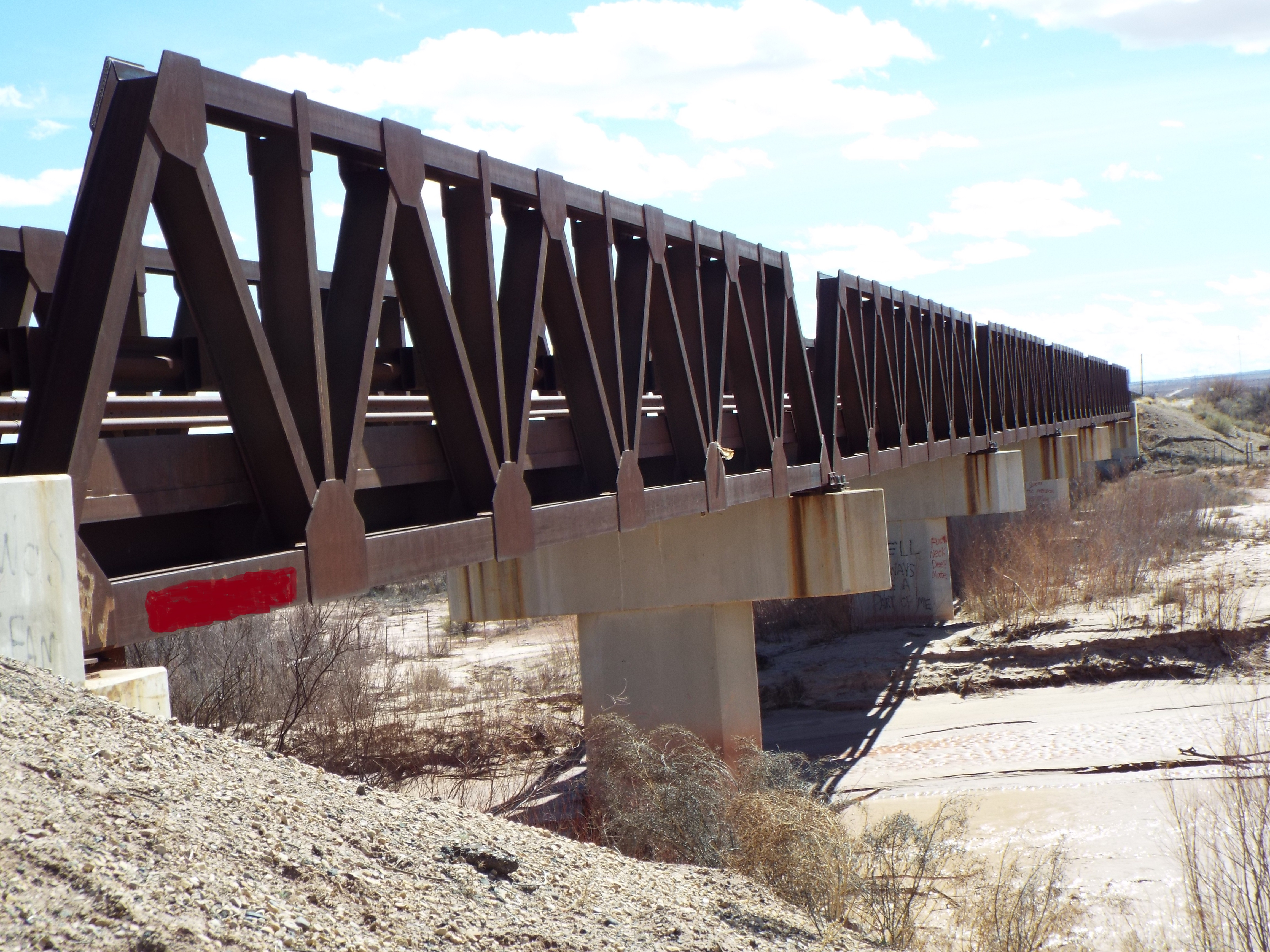 The St. Josieph Brdge a.k.a. the Lost Pratt pony truss bridge over Little Colorado River on Obed Road in Joseph City, Arizona. It was built in 1912 and was listed in the NRHP on September 30, 1988, ref. #88001633